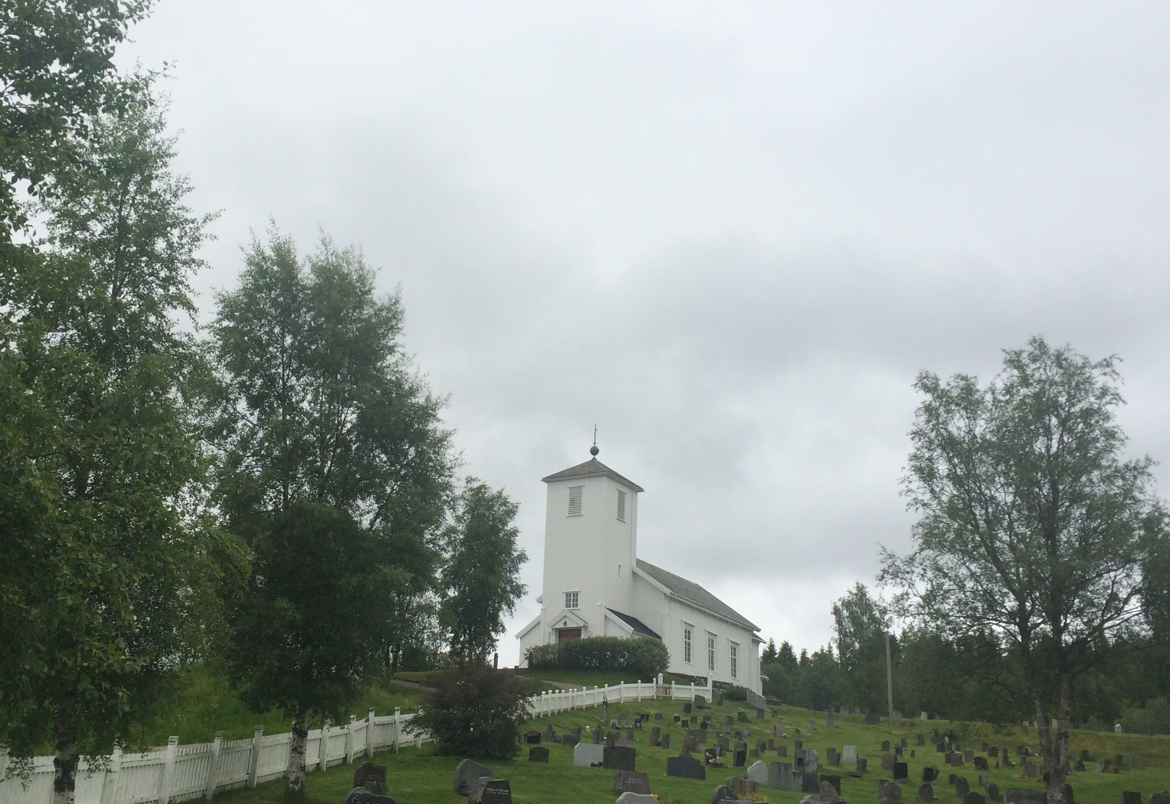 Klinga church, Nord-Trøndelag county, Norway. Erected 1866. Architect: Jacob Wilhelm Nordan